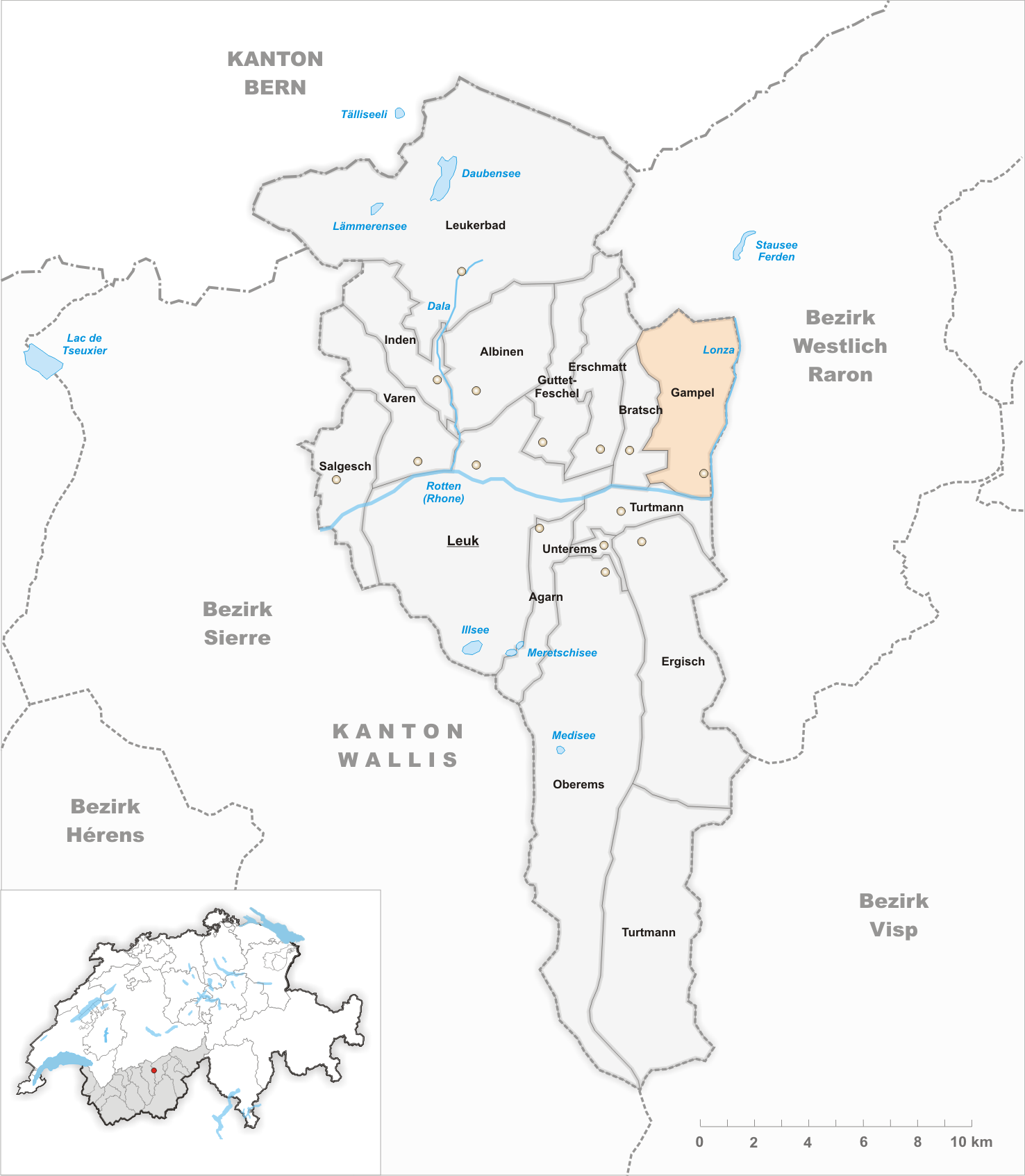 Municipality Gampel